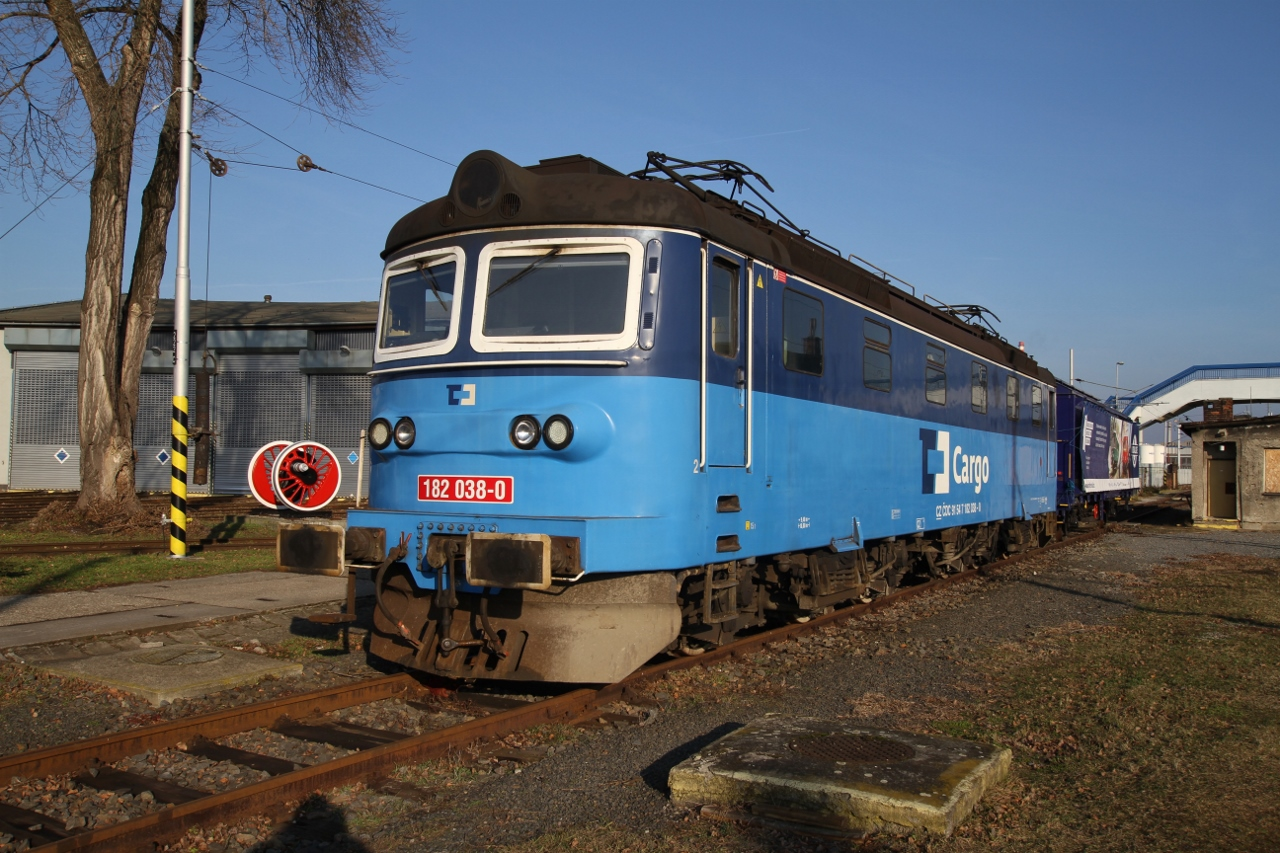 České dráhy 3,000 V DC electric locomotive 182 038-0 at Středisko oprav kolejových vozidel Ostrava